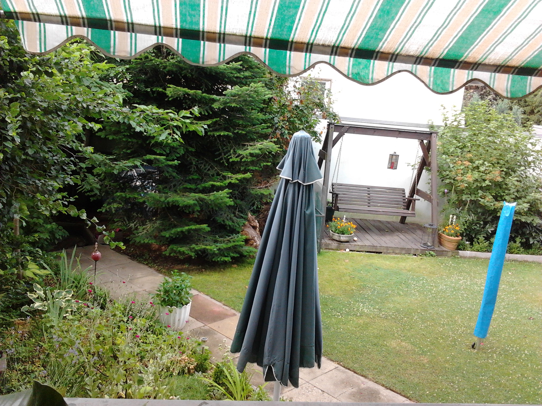 A nice backyard in Bad Salzuflen, Lippe district, Germany.